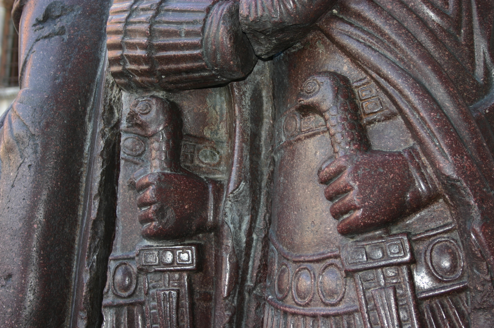 Detail of the swords of the lateral couple of the Tetrarchs of the porphyry sculpture, dating from the 4th century, produced in Asia Minor, today on a corner of Saint Mark's in Venice, next to the "Porta della Carta". The tetrarchs (from the Greek words for "Four rules") were the four co-rulers that governed the Roman Empire as long as Diocletian's reform lasted. Picture by Giovanni Dall'Orto, August 12, 2007.